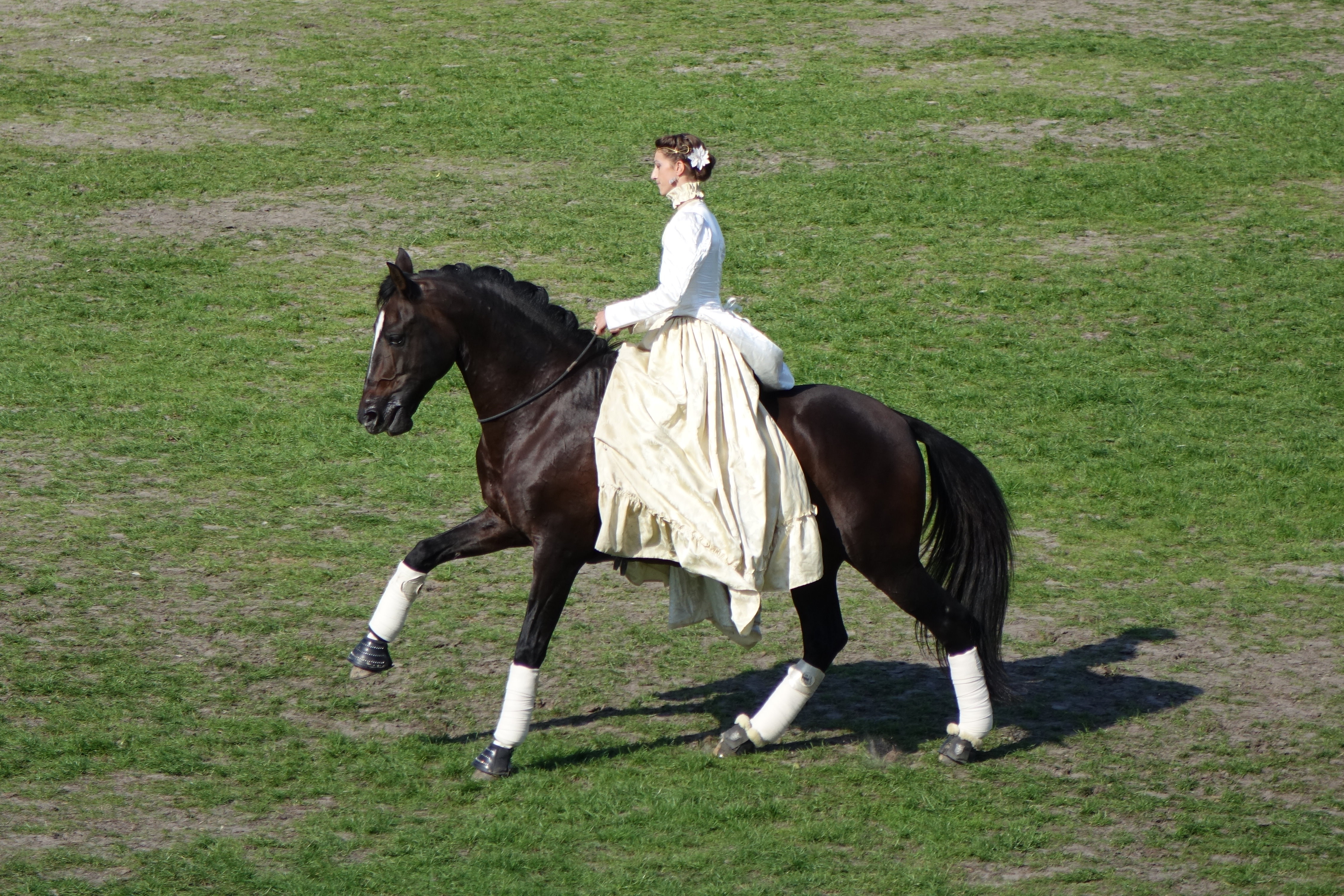 Alizée Froment et Mistral du Coussoul performing at French Jumping Championship "Master Pro" 2015 at Fontainebleau, France